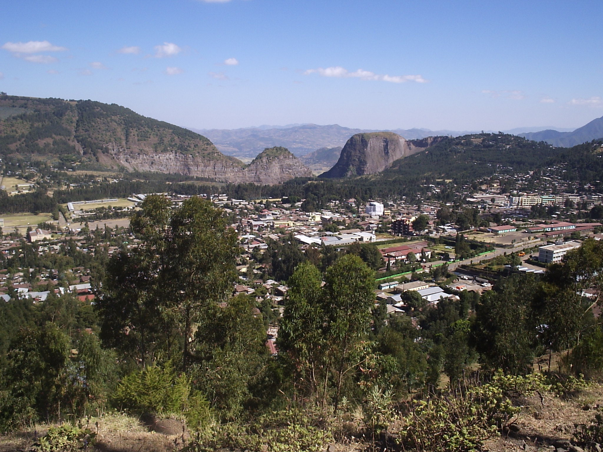 Dessie (also spelled Dese or Dessye) is a city and a woreda in north-central Ethiopia